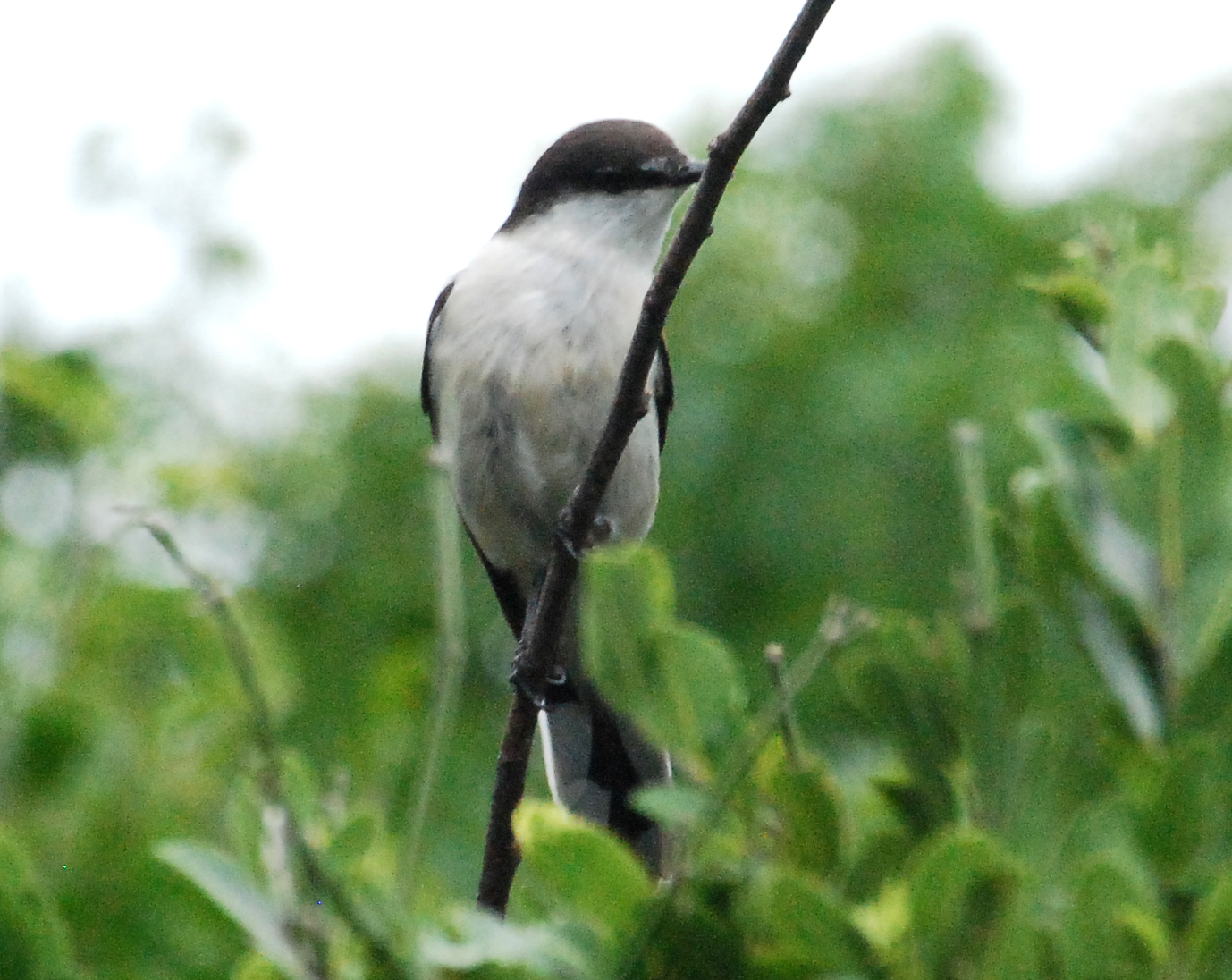 Long-tailed Triller, new caledonian subspecies